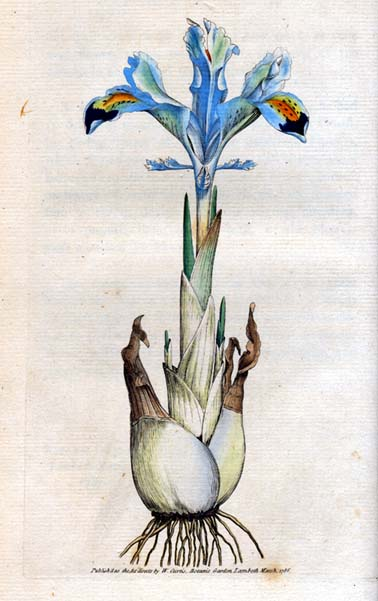 Reproduction of an image that appeared in The Botanical Magazine vol. 1. no. 1 (1792). It depicts Iris persica by James Sowerby.